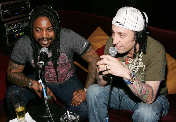 Lajon Witherspoon (left) and Morgan Rose (right) during an interview. Photo by Arashinc